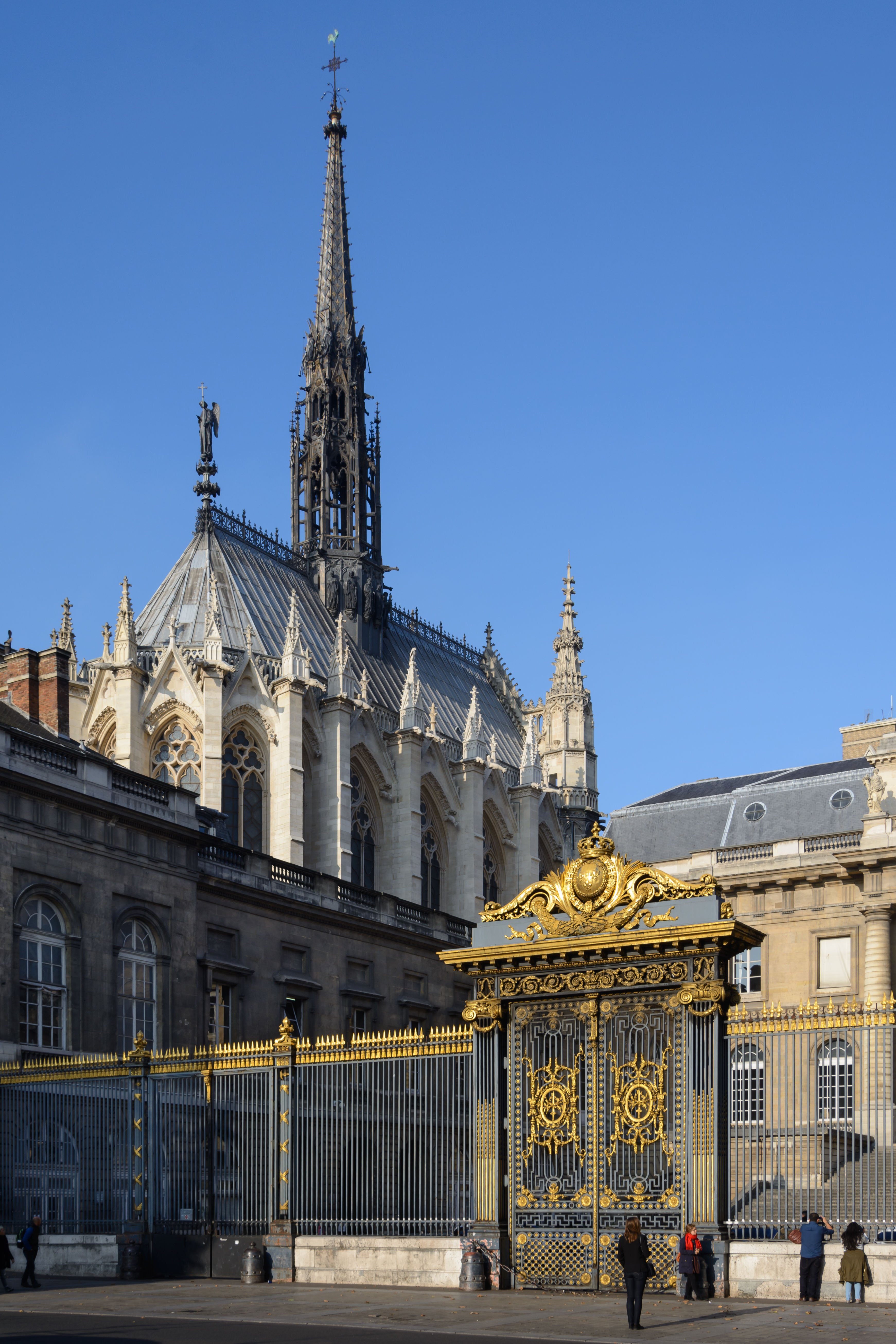 East view of Sainte-Chapelle with gate at the Cour de Mai of the Palais de Justice in Paris, France